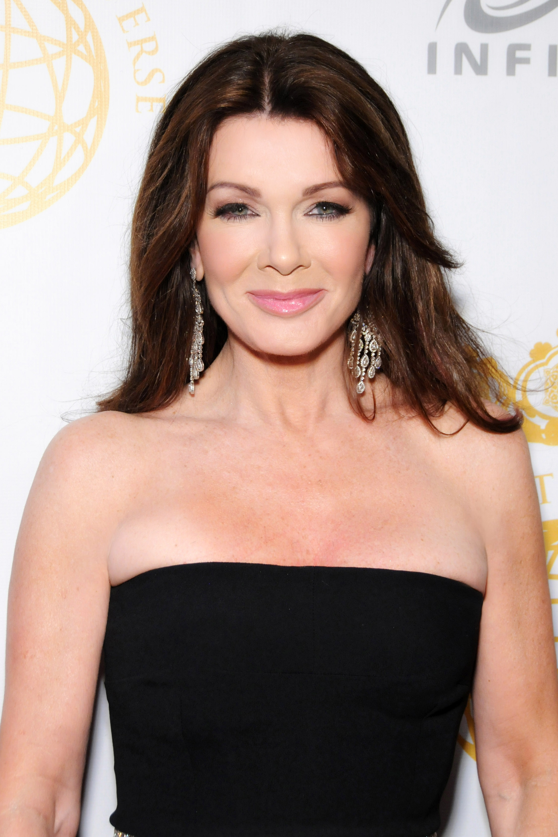 Lisa Vanderpump, Beverly Hills, California on March 16, 2014 - Photo by Glenn Francis of